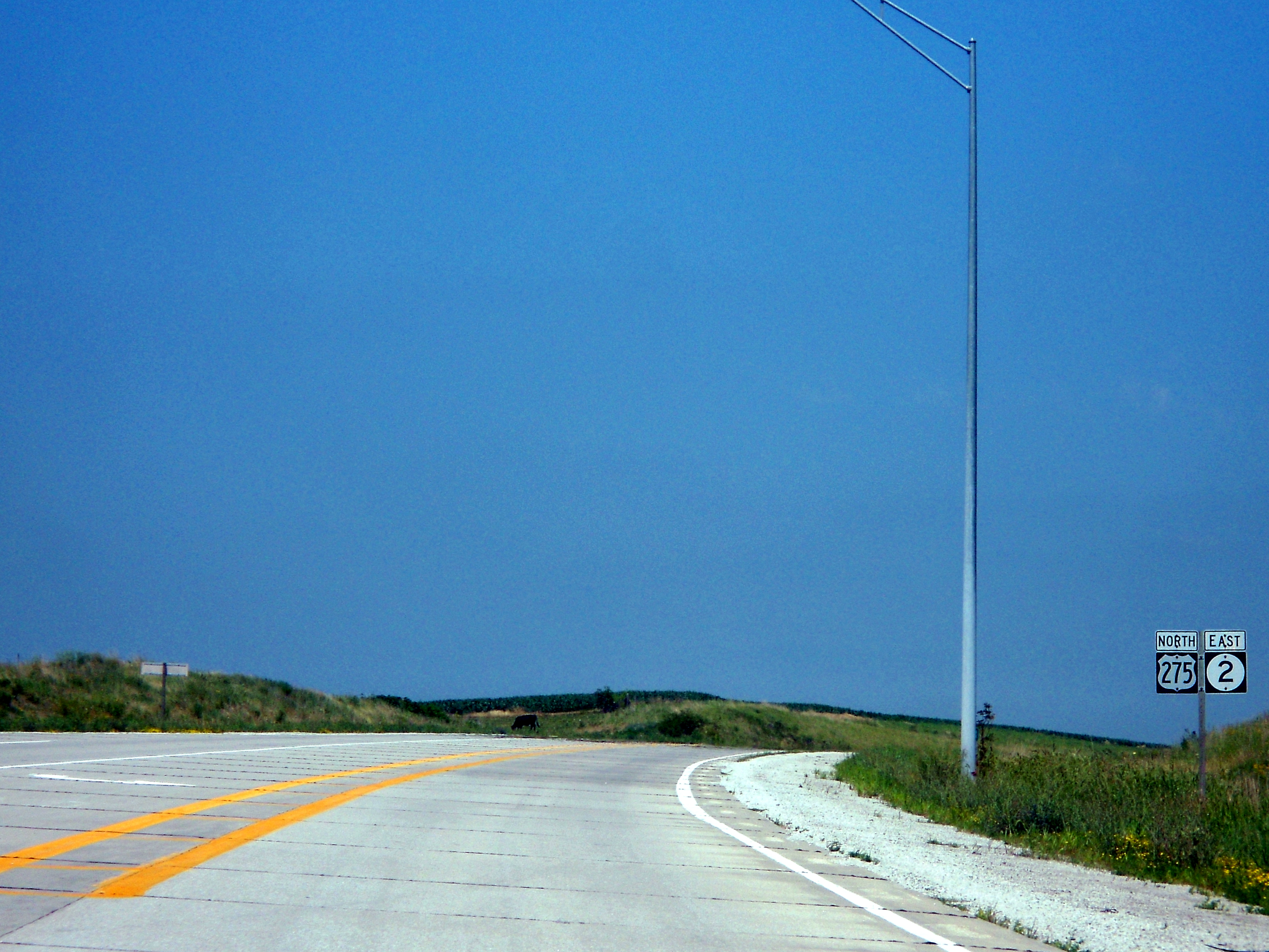 US 275 and IA 2 curve in southeast Iowa near Sidney